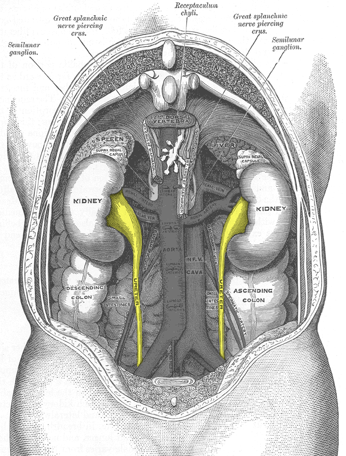 The relations of the viscera and large vessels of the abdomen. (Seen from behind, the last thoracic vertebra being well raised.) The ureters are colored.